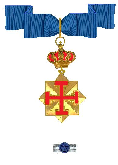 Order of Saint George of Antioch, Commander